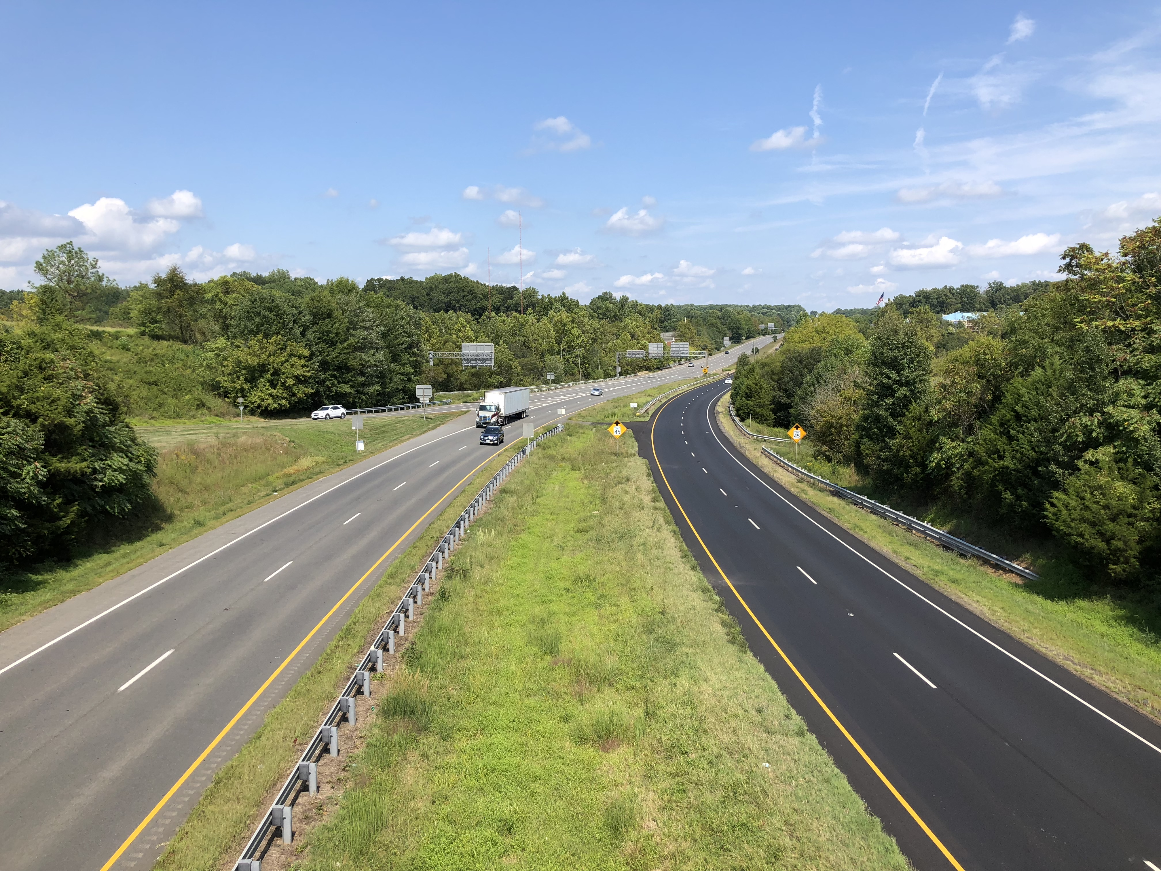 View north along U.S. Route 15 and U.S. Route 29 (Eastern Bypass) from the overpass for U.S. Route 15 Business and U.S. Route 29 Business (Lee Highway) in Warrenton, Fauquier County, Virginia